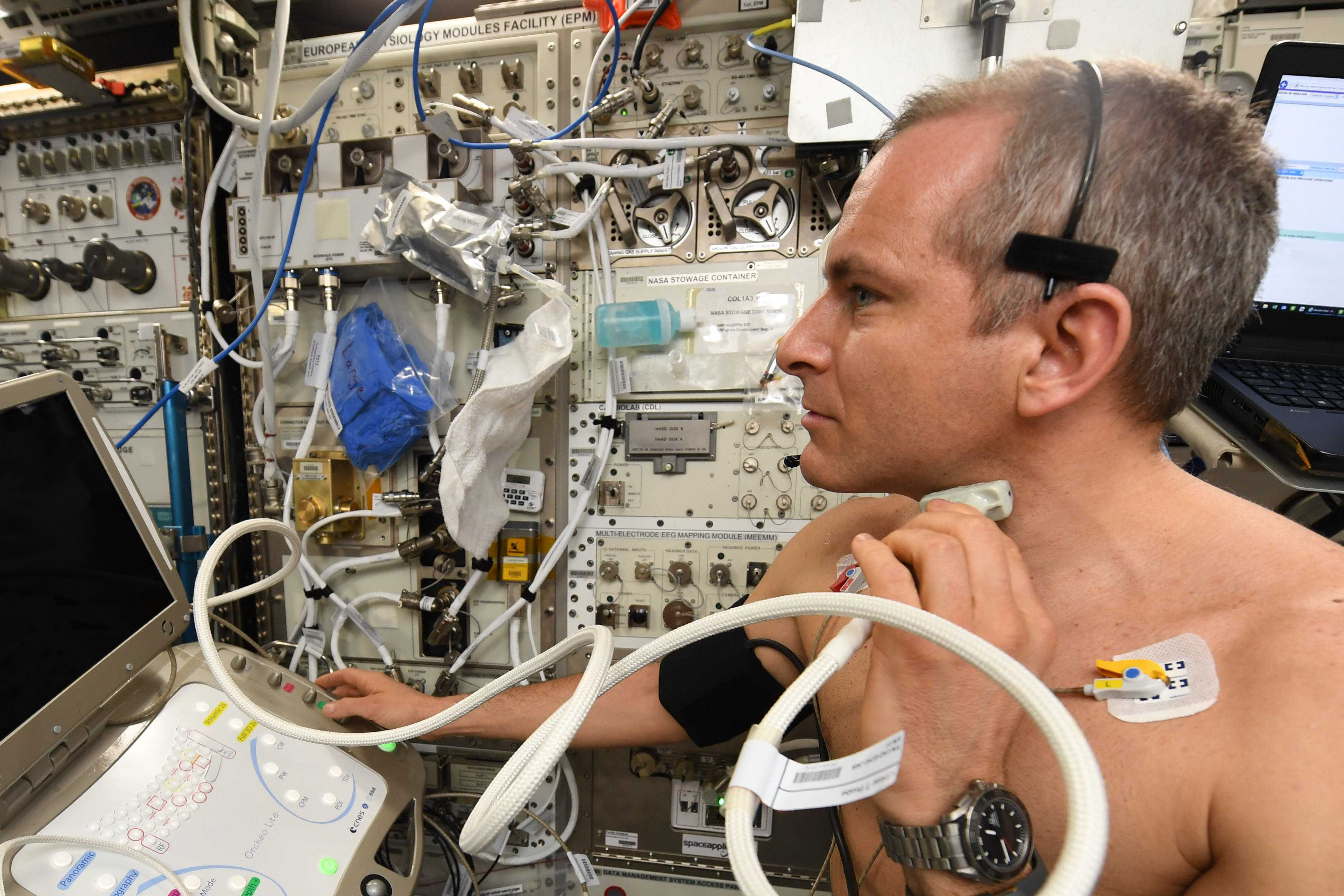 Canadian Space Agency astronaut David Saint-Jacques performs an ultrasound for the Vascular Echo experiment, one of the trio of experiments in the Vascular group that includes Vascular Aging.